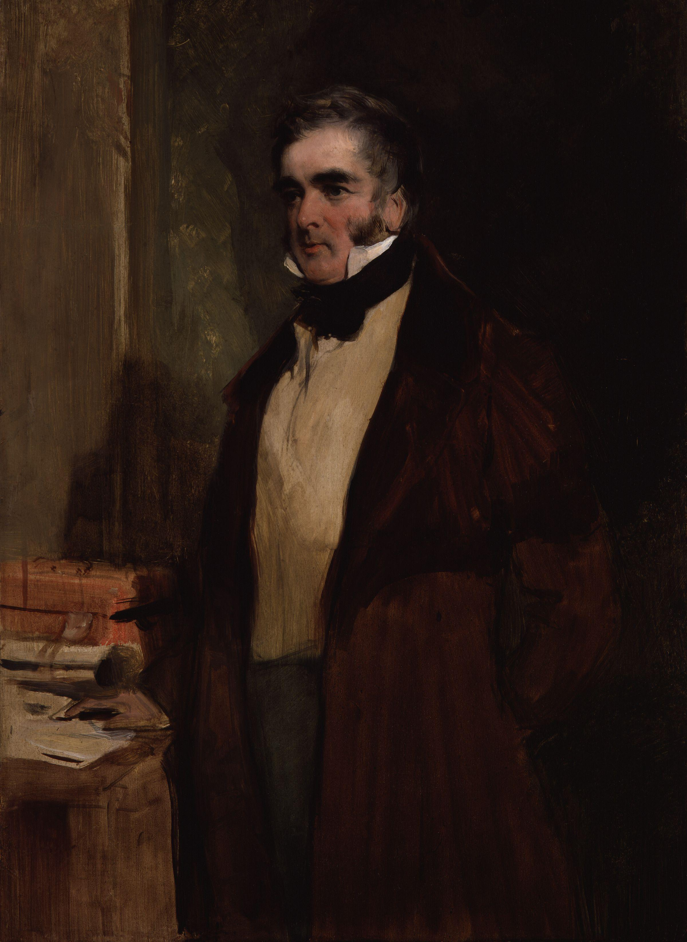 William Lamb, 2nd Viscount Melbourne, by Sir Edwin Henry Landseer (died 1873). All images in this batch have been confirmed as author died before 1939 according to the official death date listed by the NPG.